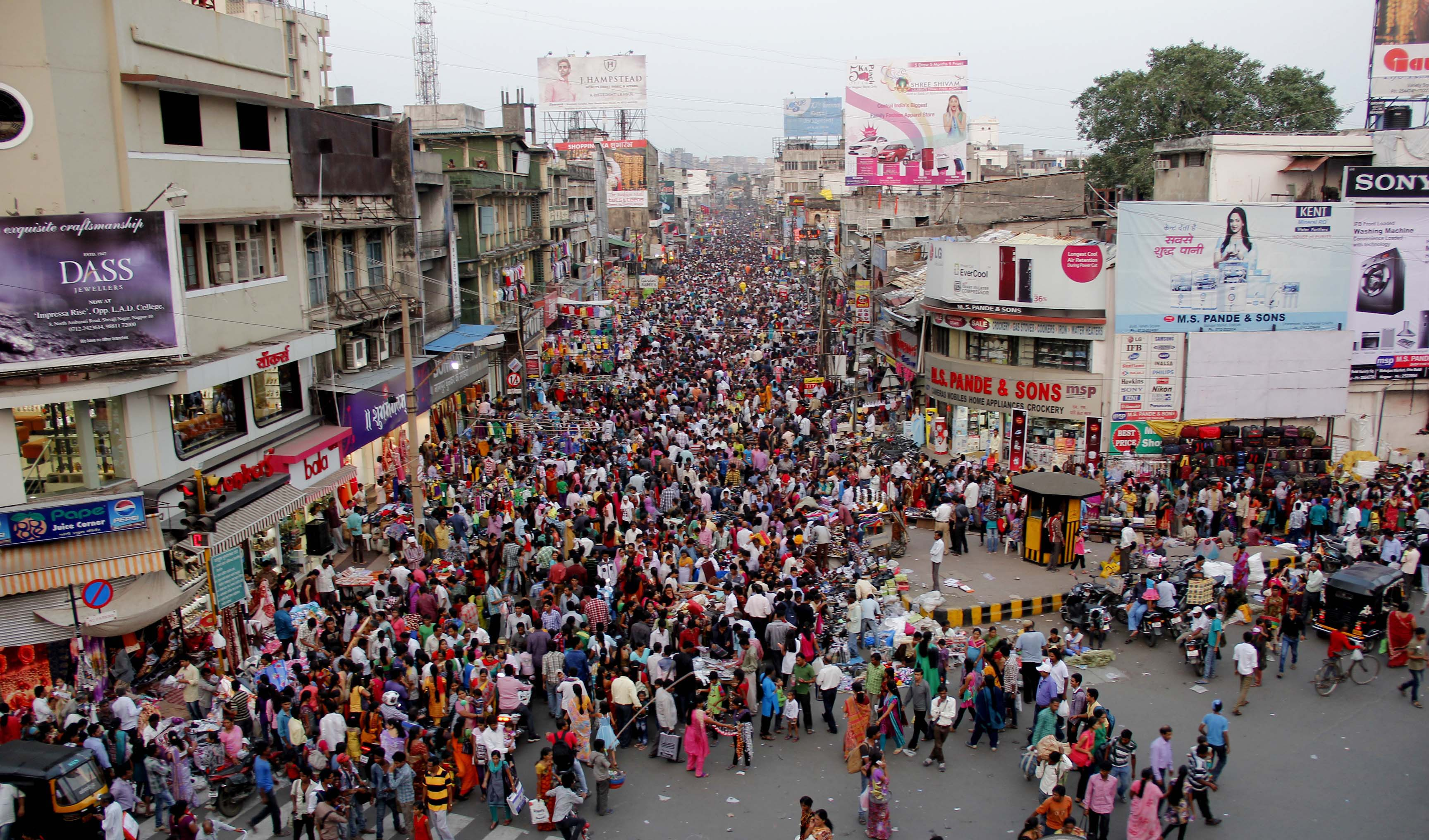 Sitabardi Nagpur crowd for Diwali shopping.